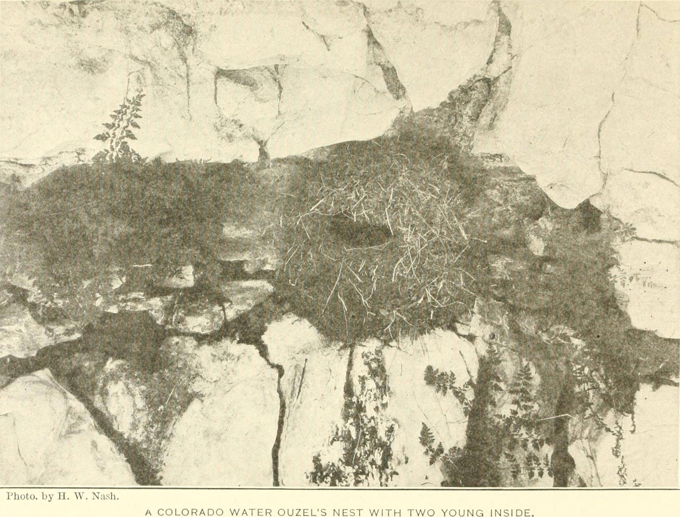 A Colorado water ouzel's nest with two young inside (American dipper, Cinclus mexicanus) Title: Wild animals of Glacier National Park. The mammals, with notes on physiography and life zones Year: 1918 (1910s) Authors: United States. National Park Service Bailey, Vernon, 1864-1942 Bailey, Florence Augusta (Merriam), Mrs, 1863- Subjects: Mammals Birds Publisher: Washington, Govt. print. off. Text Appearing Before Image: Photo, by J. Rowley. Courtesy of Bird-Lore. Fig. 88.—Water ouzel at eniranco to uost. the Swiftcurrent—only a few steps from Many Glaciers Hotel—where trains of saddle horses and automobile stages go rushing by, apair of the short-tailed gray water wrens were seen flying swiftlylow over the water on their way back and forth between their feed-ing grounds along the lake above and their nest at the foot of thewaterfall below. And from the top of the gorge, marking the his- Wild Animals Glacier Park. PLATE XXXIV. Text Appearing After Image: BIEDS. 189 toric Lewis Overthrnst Fault of the map, the ouzel was watchedthrough the ghiss flying clown over the white roaring waterfall, turn-ing a shielding point of rock, and buzzing like a hummingbird infront of a ledge before the open mouth of a domed mossy nest fromwhich, with a noisy Avelcome, Avidely gaping yellow bills reacheddown to be fed. Then off like a flash, the eager parent flew OAerthe frothing SAvirling water and through the wind-blown spraj^ backup the tumbling falls to its hunting ground on the lake above. Wlien tired perhaps by strenuously climbing waterfalls, one ofthe pair went hunting below along the bank of the creek, andan observer new to water ouzels and their strange ways, catchingthe enthusiasm of first-hand knowledge, exclaimed excitedly, ZTe■we7it right doicii under icater! He went down under waterP AVhen.,lured b)^ some tempting morsel at the bottom of the creek, the littlewater wren, secure in his oilskin suit, does go below in this waj, heoften swim